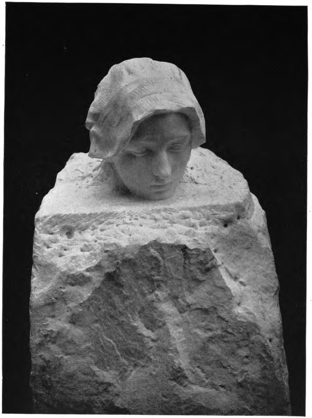 A personification of thought. The model was sculptor and graphic artist Camille Claudel, Rodin's student and lover.